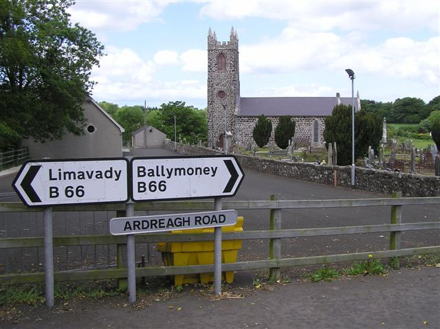 Ardreagh Road, Aghadowey In the background is Aghadowey Church of Ireland